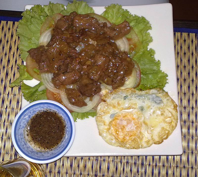 Cambodian Lok Lak